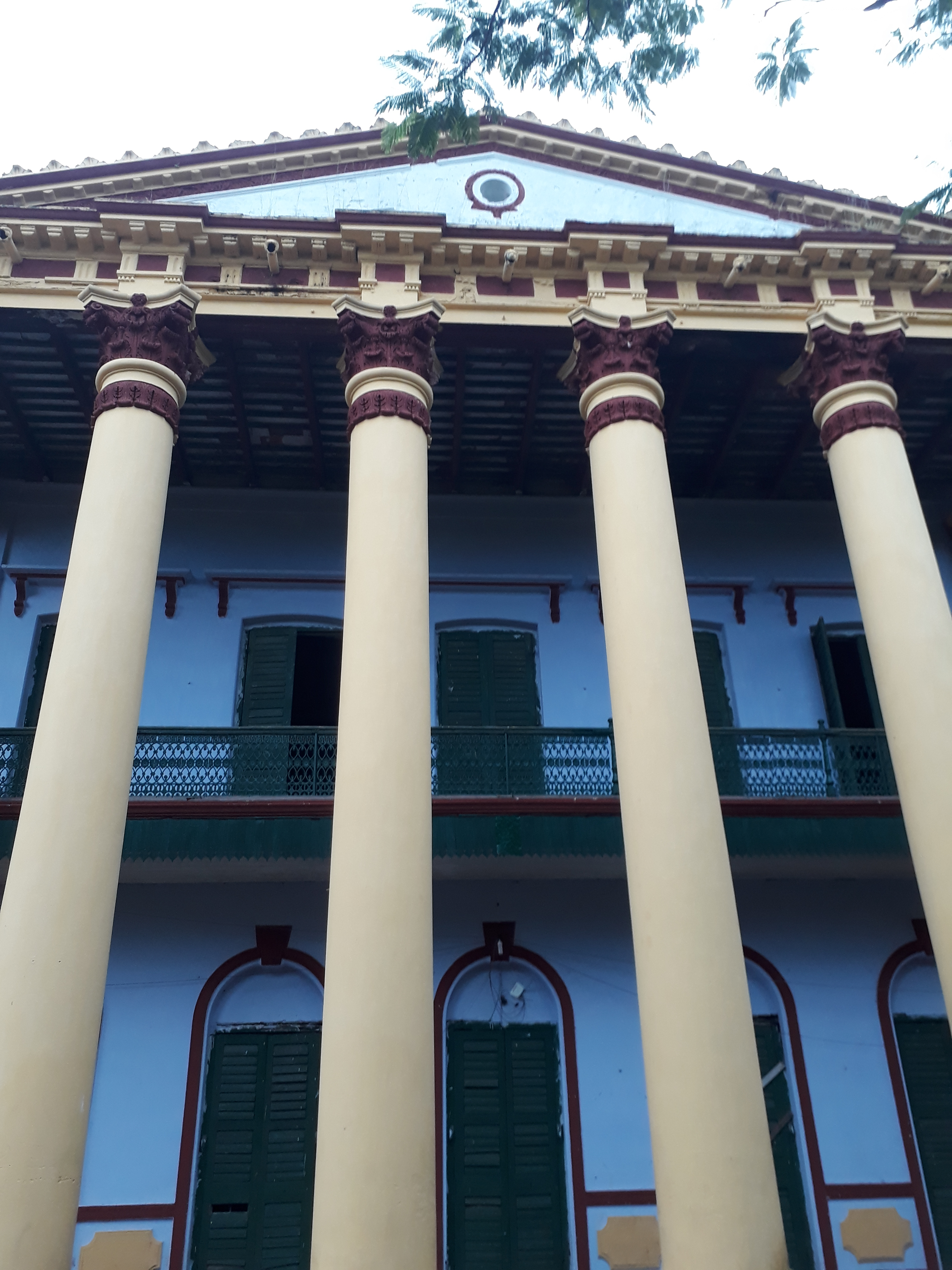 Hetampur Royal Palace at Hetampur village, Birbhum, West Bengal